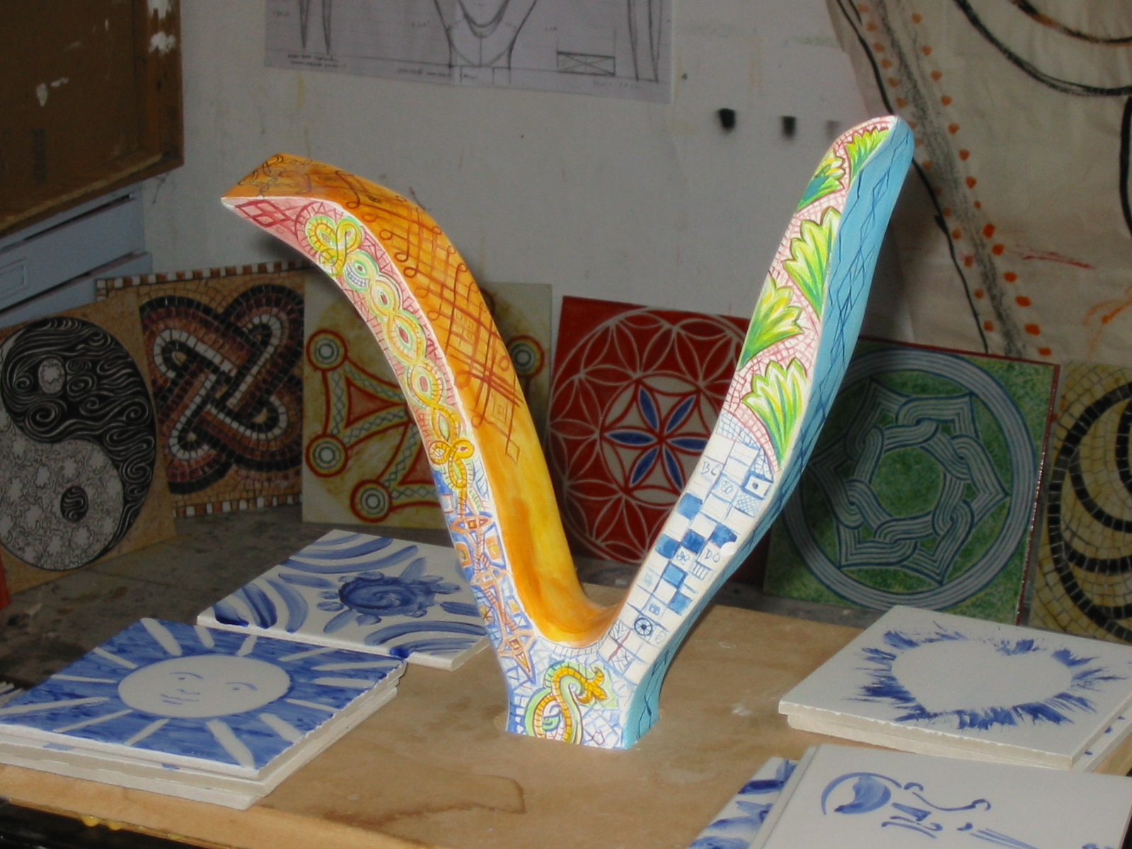 Model of a large artwork of Dutch artist Chris Dagradi. Picture taken with permission, october 2006